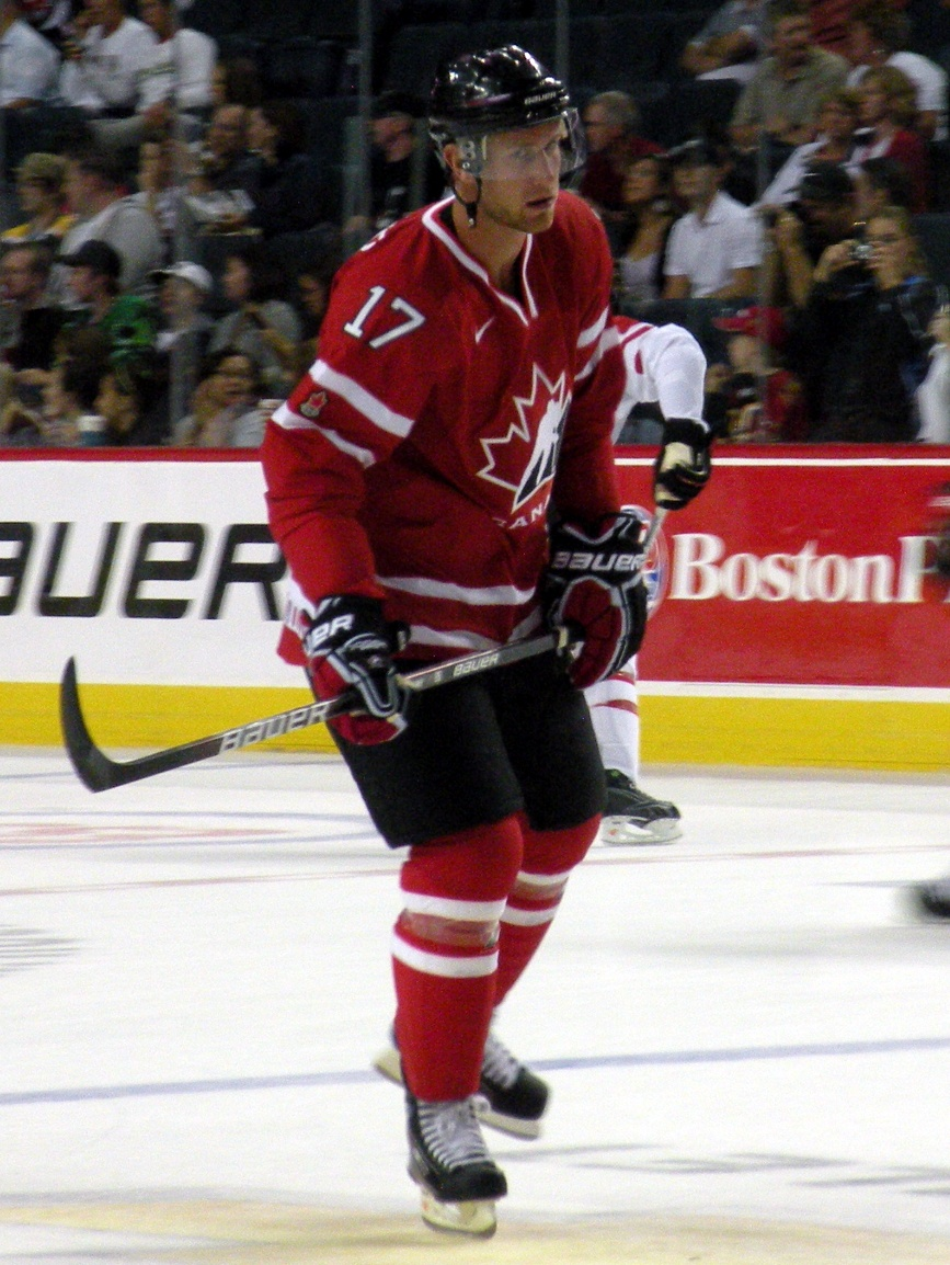 Ice hockey forward Jeff Carter during Hockey Canada's Red-White game during pre-Olympic camp at Calgary, Alberta.